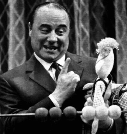 Mario Riva hosting the Italian TV-show Il Musichiere (1958)